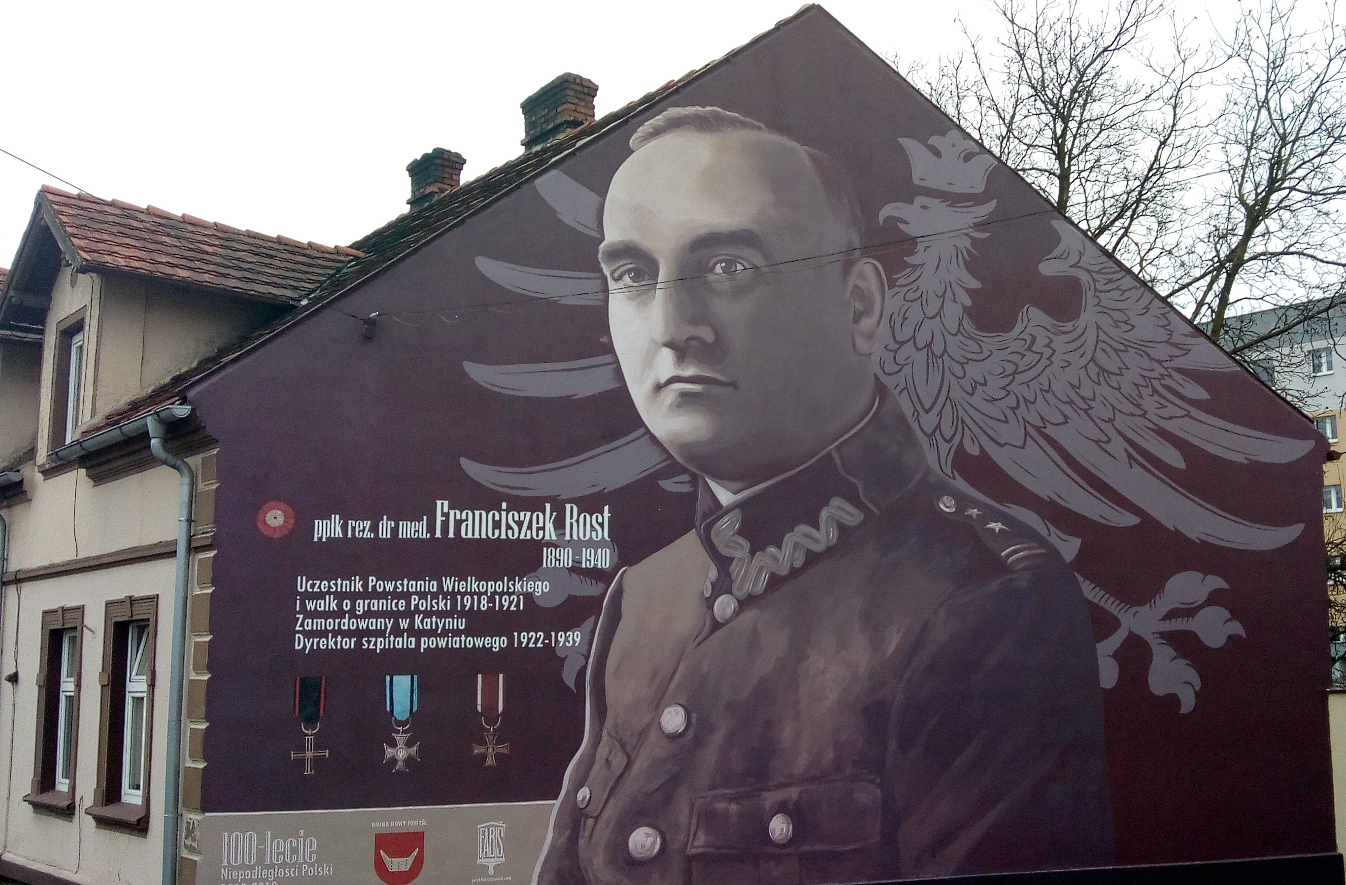 Franciszek Rost- polish officer died 1940 (victim of Katyn massacre)